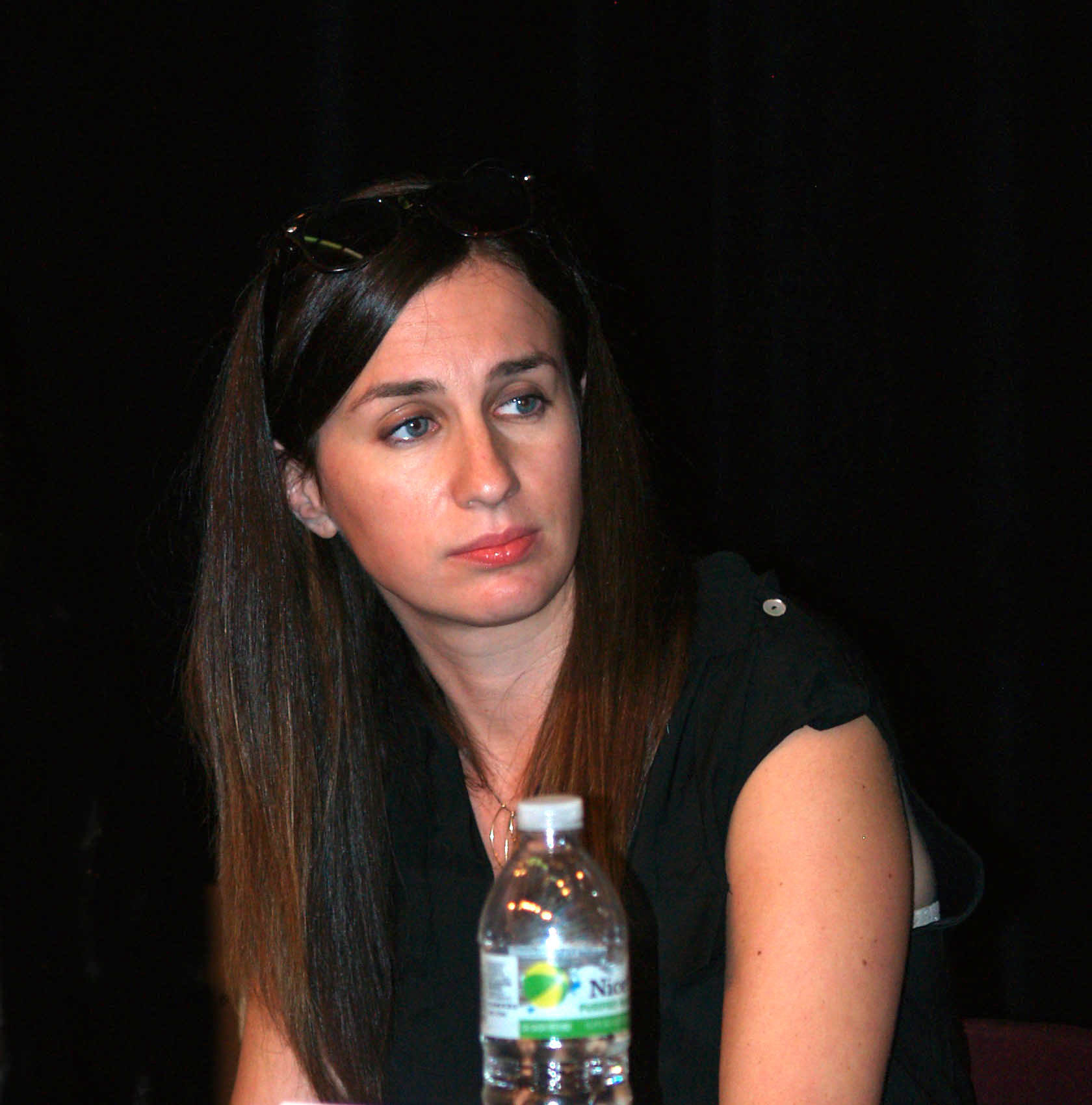 Novelist/columnist Adelle Waldman at the "Something to Hide" panel at the the 2014 Brooklyn Book Festival, in which she and other writers discussed how government surveillance programs have spurred some writers to avoid writing on topics that might subject them to scrutiny, and whether this threatens artistic and intellectual freedom. This photo was created by Luigi Novi. It is not in the public domain, and use of this file outside of the licensing terms is a copyright violation.